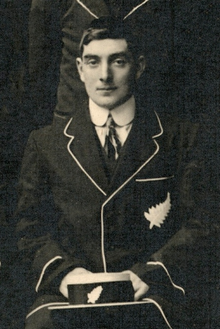 Dick Roberts in 1913 dress gear.